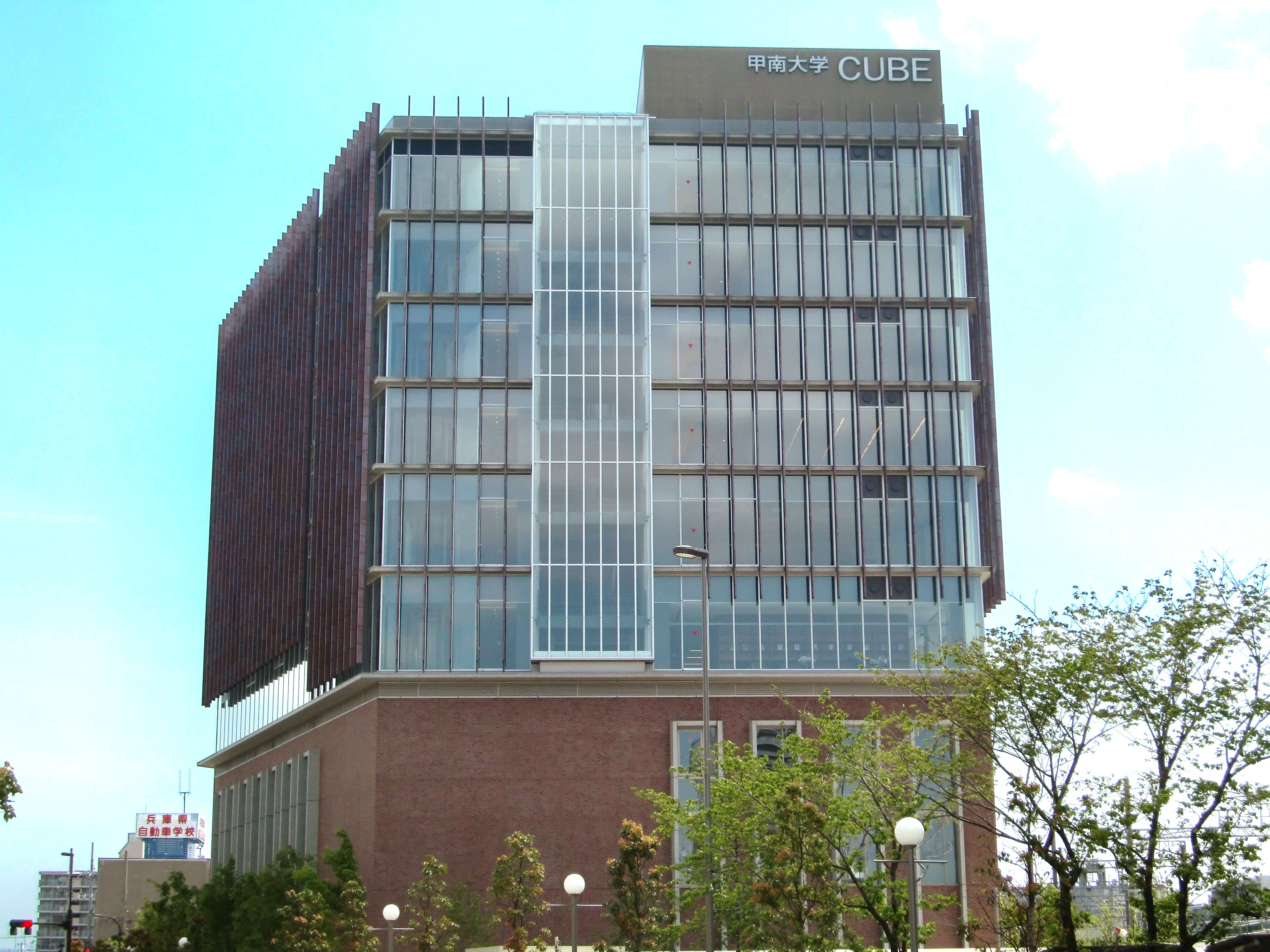 Konan University Nishinomiya Campus(Konan CUBE Nishinomiya), 8-33 Takamatsucho Nishinomiya-City Hyogo Japan.